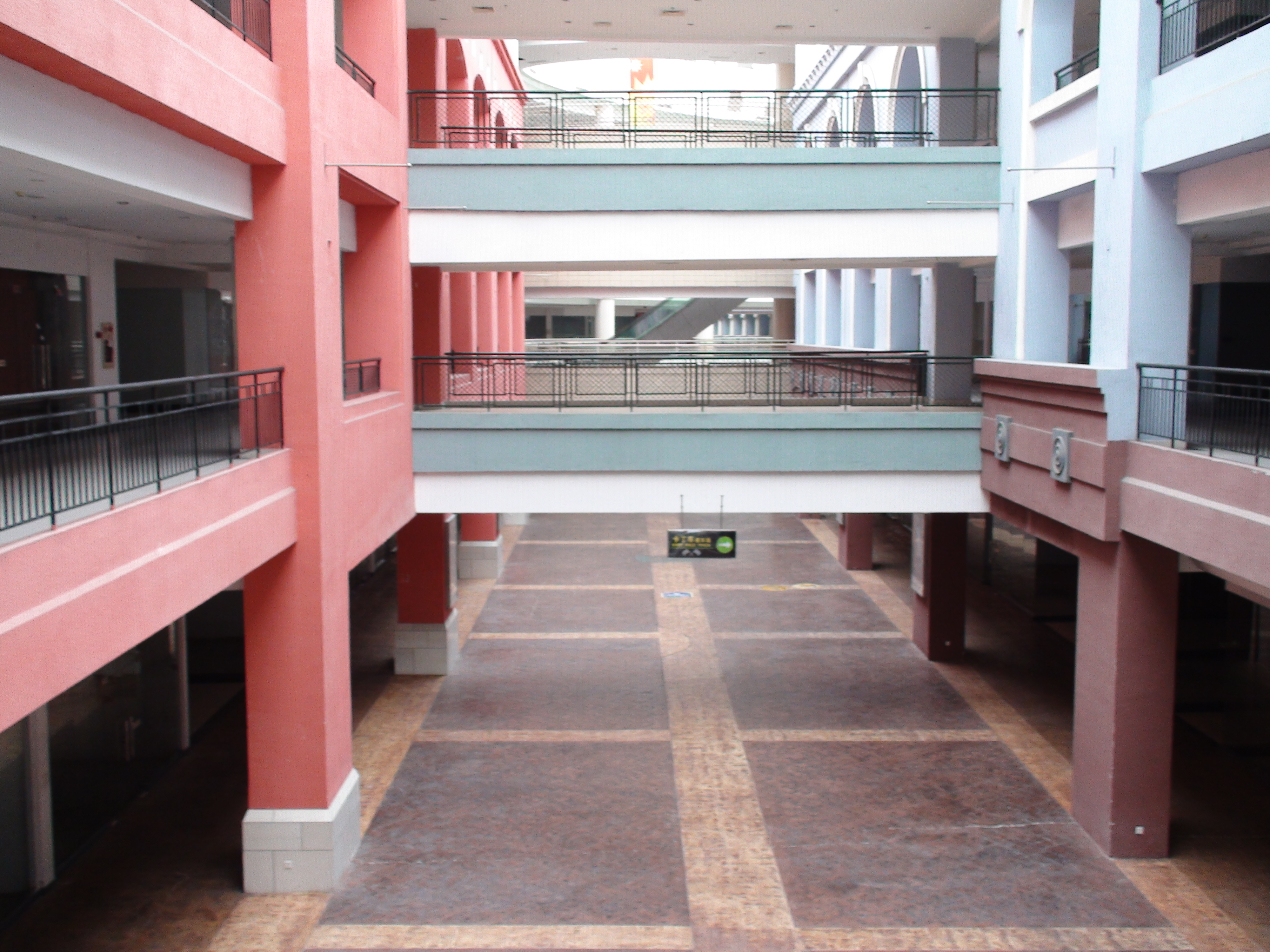 Uploaded with permission of author for public domain